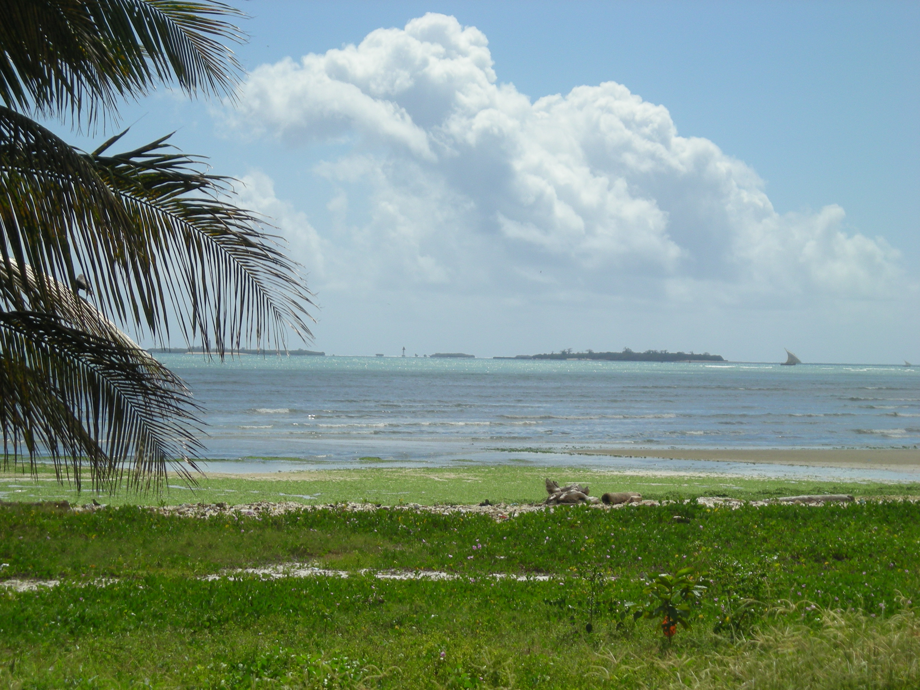 Dar es Salaam beach and the Indian Ocean